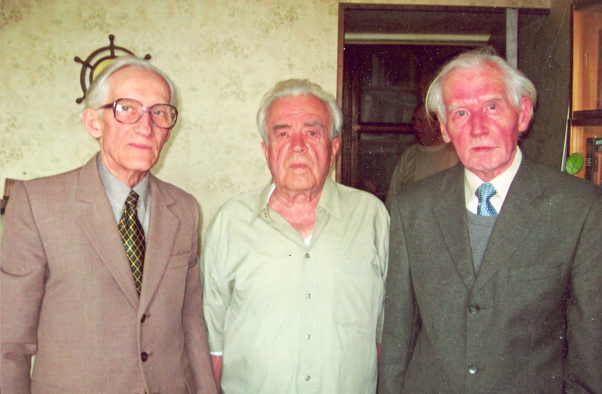 Migal B.K. and Zaicev B.P. and Kadeev V.I.